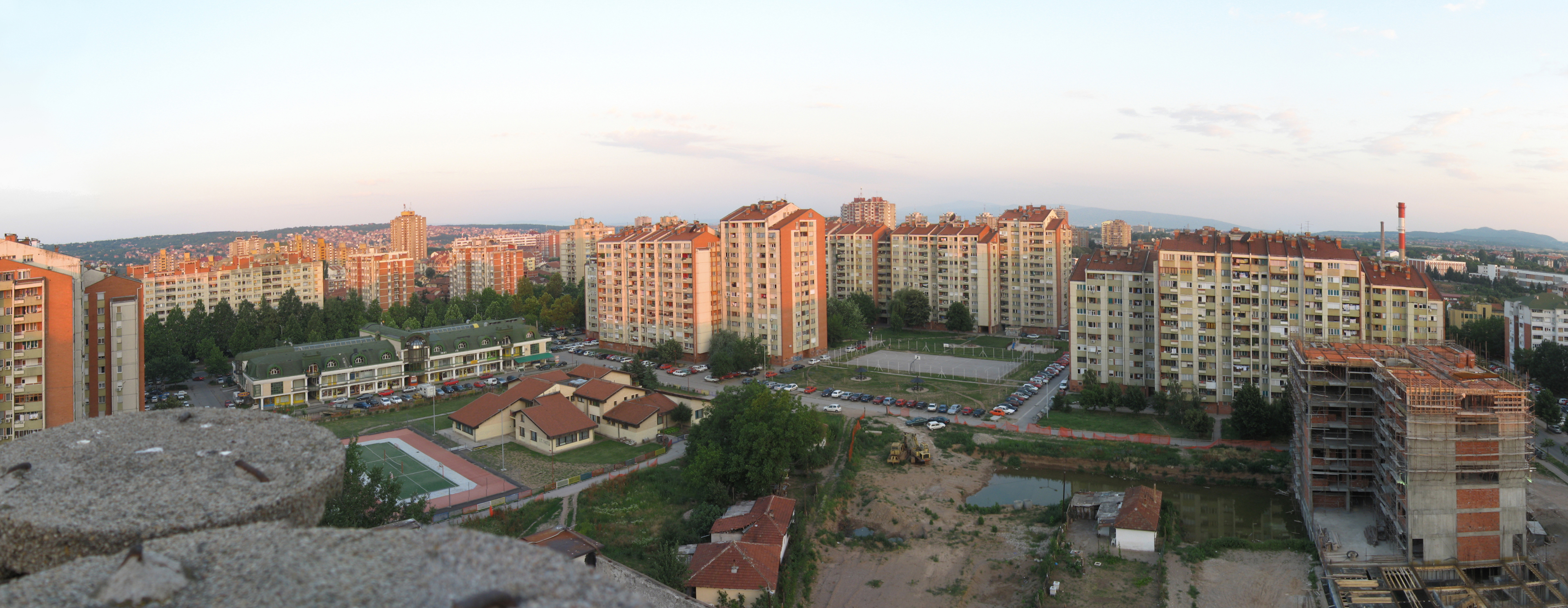 Nis, Bulevar Nemanjica and the rest of the city sight from the roof at the number 18, Branka Krsmanovica street. Crated in hugin, free panorama tool.